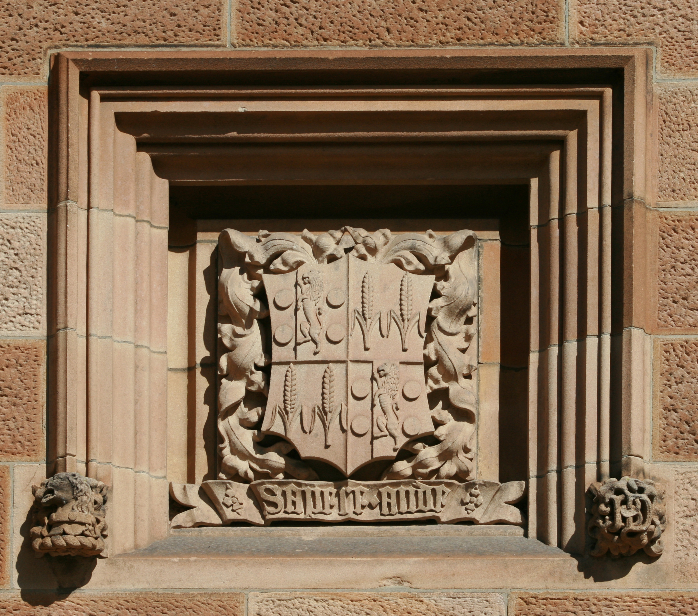 The first of six sandstone crests on the northern side of the Great Hall at the University of Sydney.